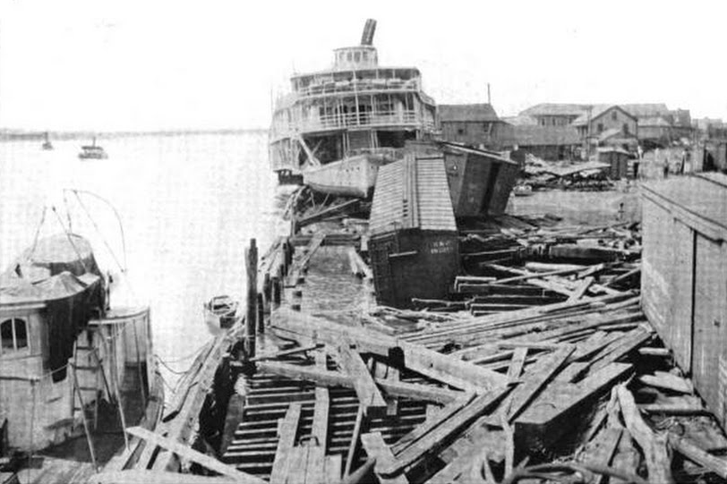 The steamer Charles E. Cessna washed ashore by the 1916 Gulf Coast hurricane in Mobile, Alabama, USA.